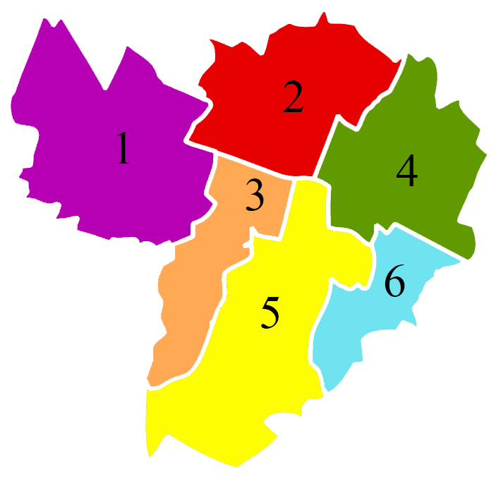 A map showing the six boroughs of Bologna, Italy. 1. Porgo Banigale-Reno 2. Navile 3. Porto-Saragozza 4. San Donato-San Vitale 5. Santo Stefano 6. Savena